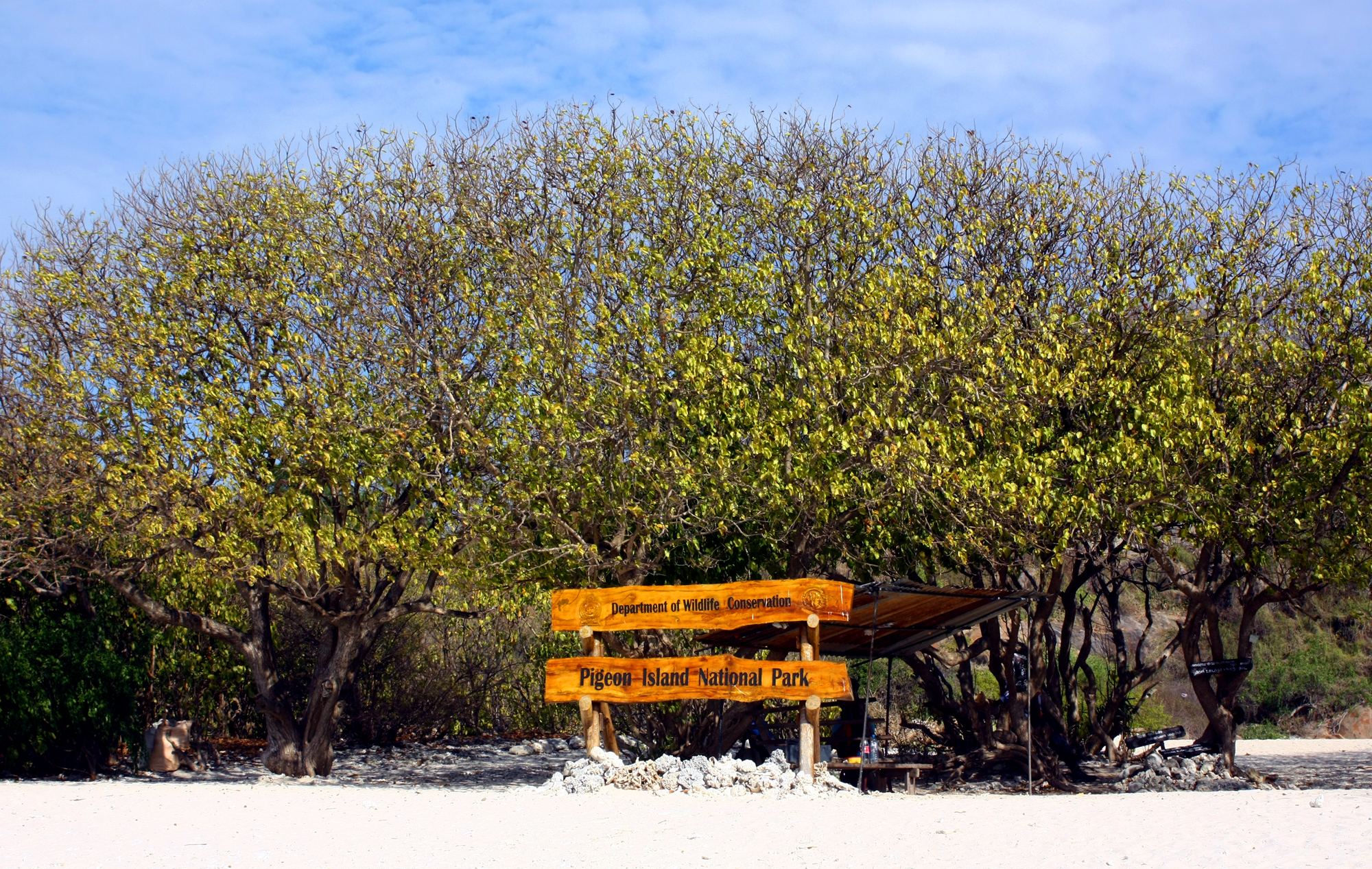 Pigeon Island National Park - name board at entrance